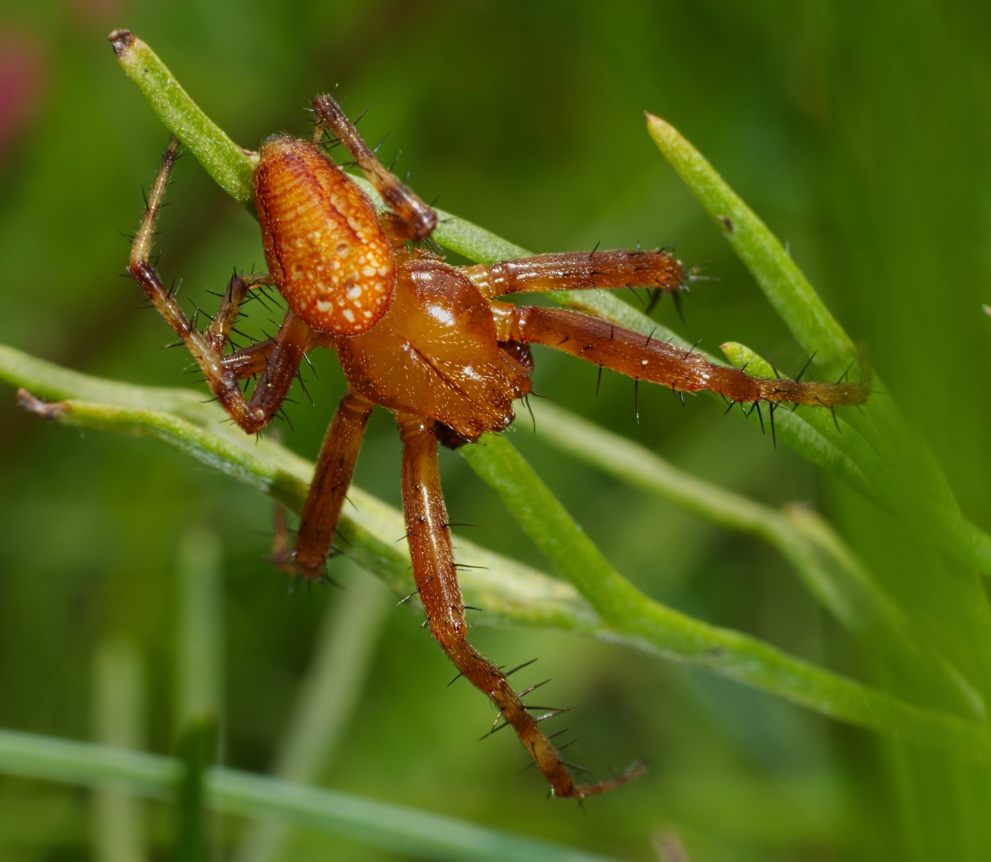 Strawberry Spider - Araneus alsine, male. Taken between Wustrow and Neu Drosedow, Mecklenburg-Western Pomerania, Germany.